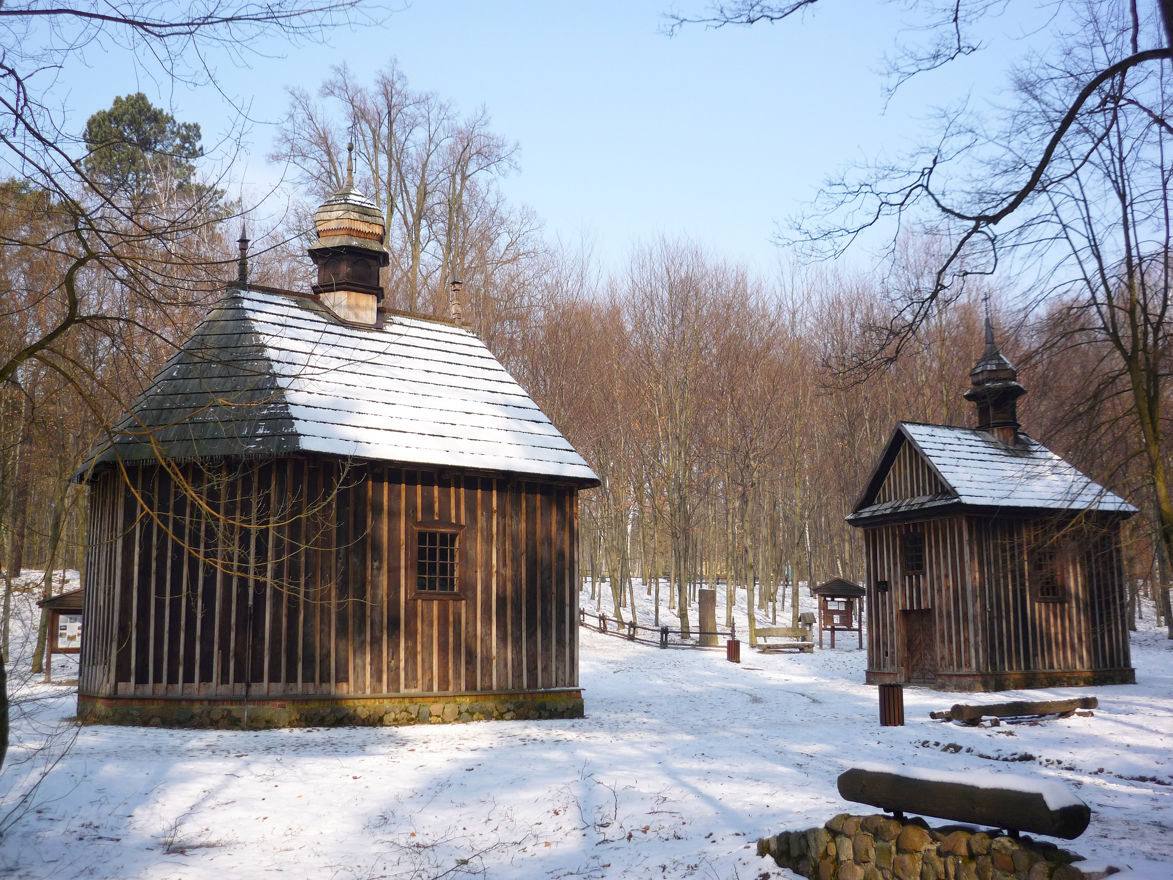 St. Anthony's chapel and St. Roch and St. Sebastian's chapel (Łódź-Łagiewniki, Poland)